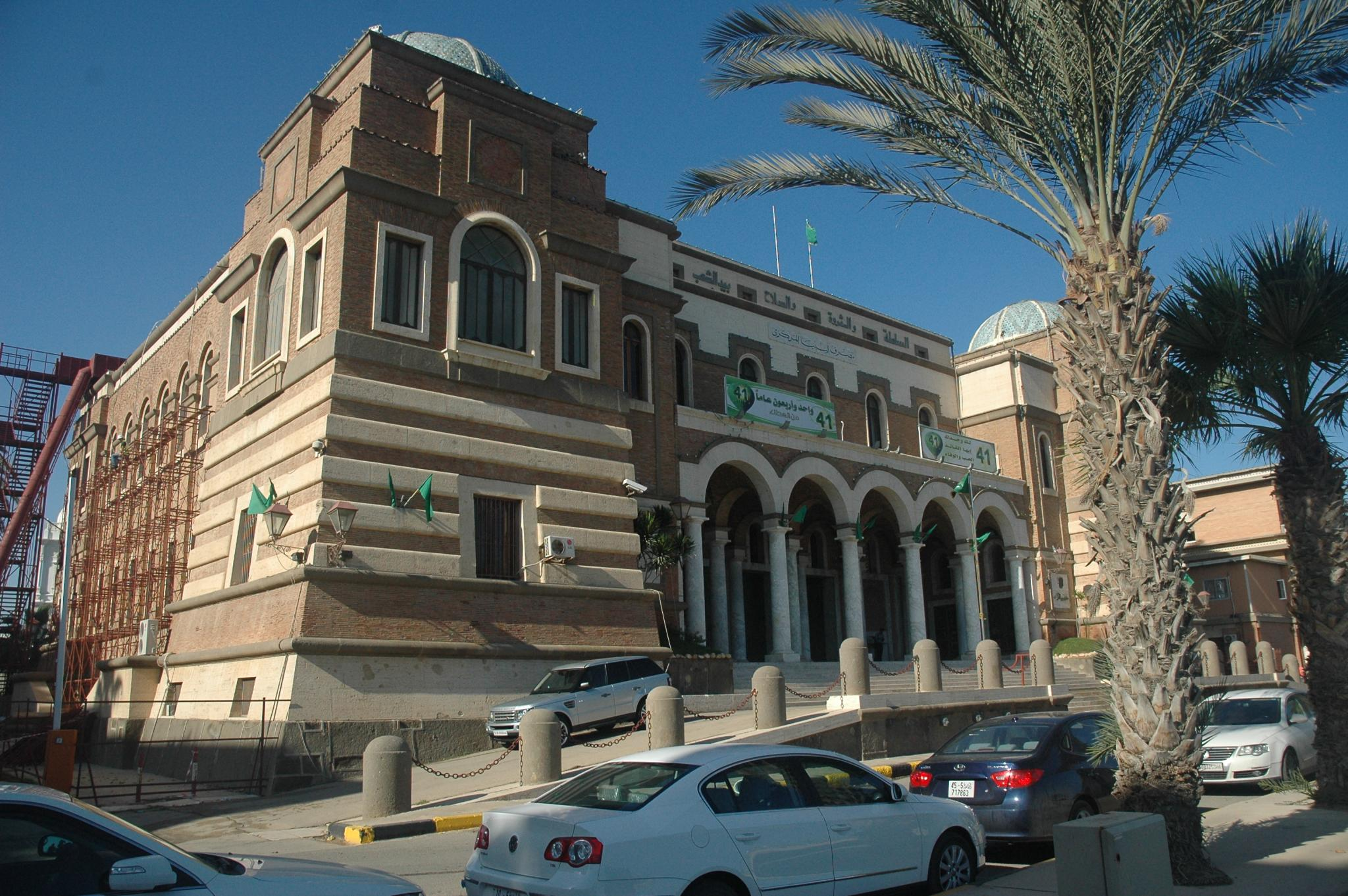 The Central Bank of Libya offices in Tripoli.